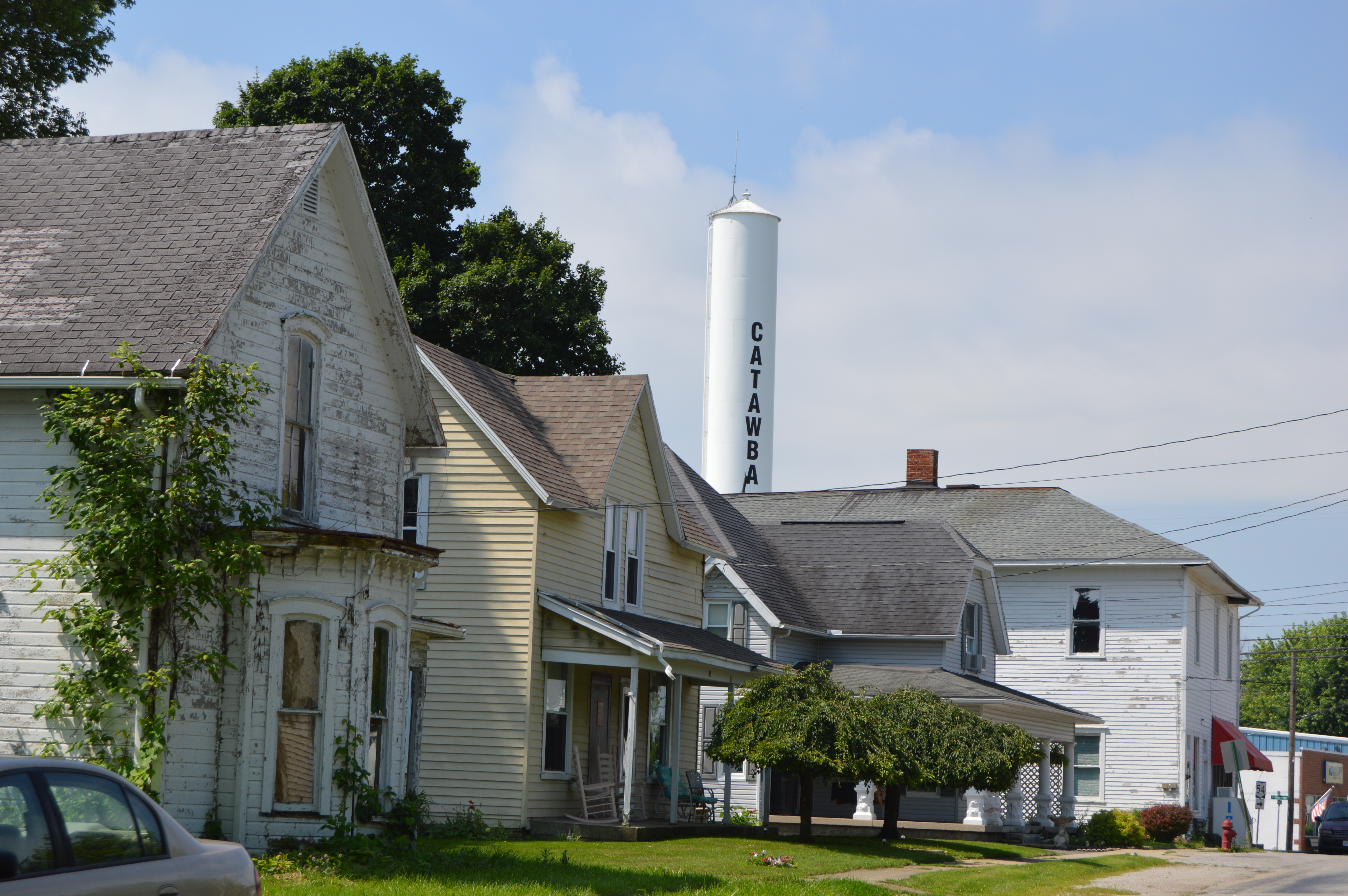 Houses on the southern side of Pleasant Street west of the Lorraine Street intersection in Catawba, Ohio, United States.